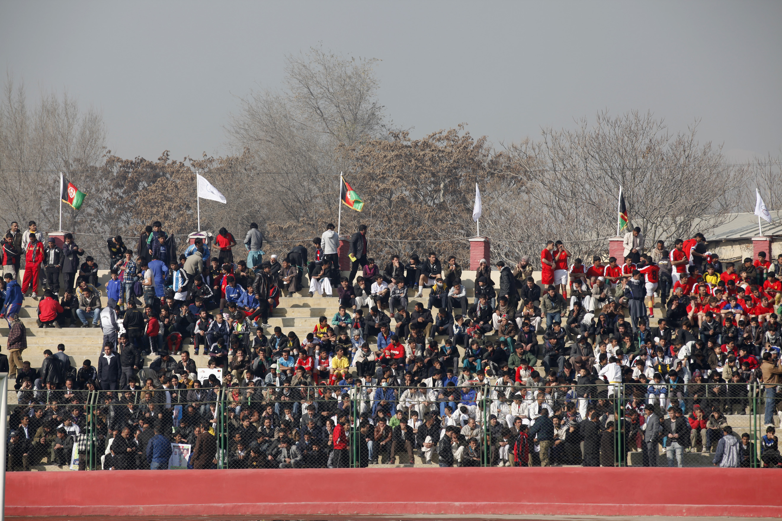 The Afghan Olympic Committee celebrated the re-opening of the Ghazi Stadium in Kabul, Afghanistan on Thursday, December 15, 2011. Hosted by the Olympic Committee, the event was attended by U.S. Ambassador Ryan C. Crocker, Afghan Olympic President Lieutenant General Mohammad Zaher Aghbar, and Commander of International Security Assistance Force-Afghanistan General John Allen.